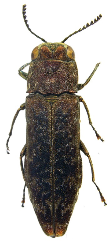 Agrilus sordidulus Obenberger, 1916.